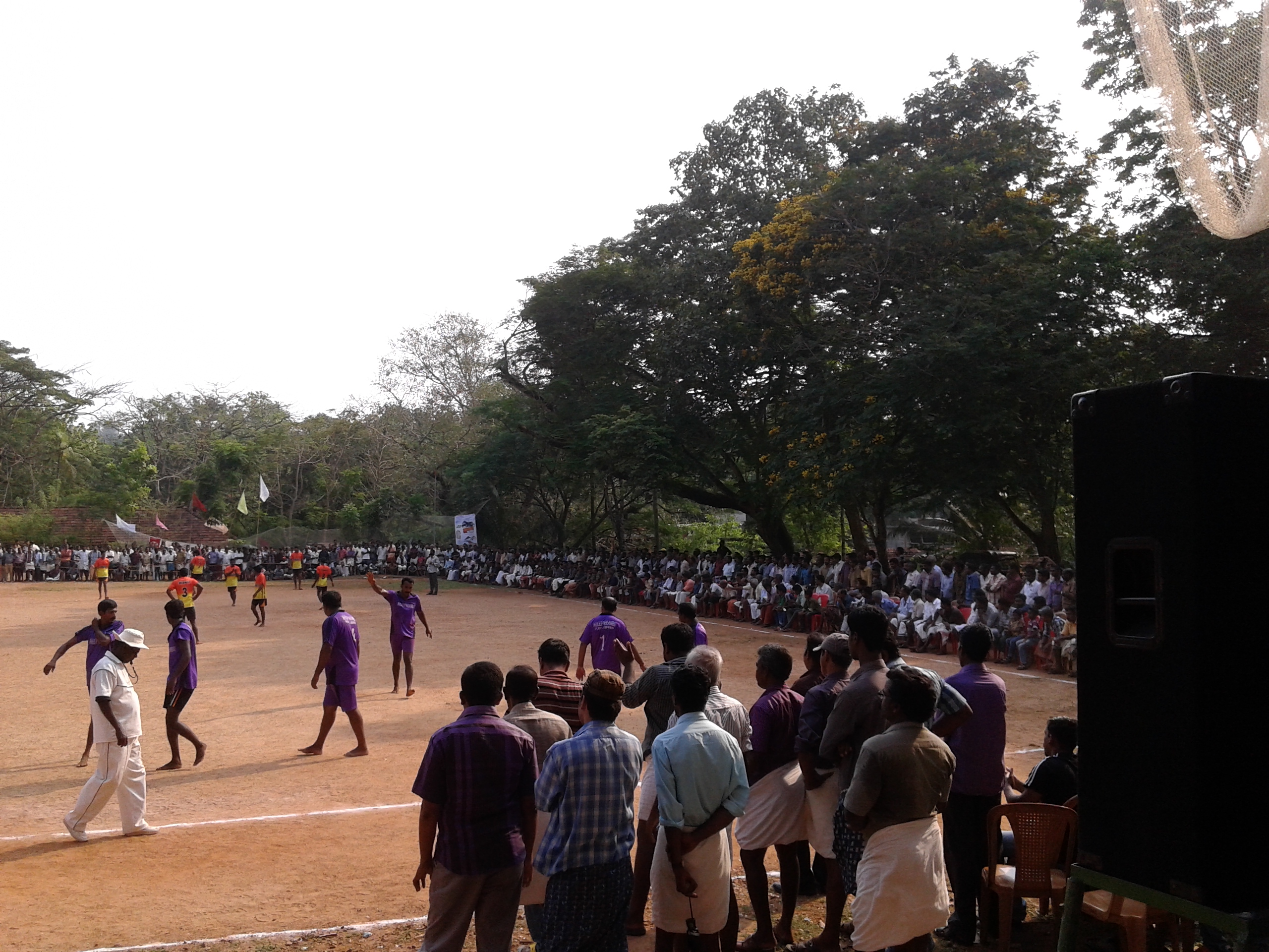 ആലാംപള്ളി സ്കൂൾ മൈതാനത്ത് 2014-ൽ സമര്‍പ്പണ ആലാംപള്ളി സംഘടിപ്പിച്ച നാടന് പന്തുകളി മത്സരം